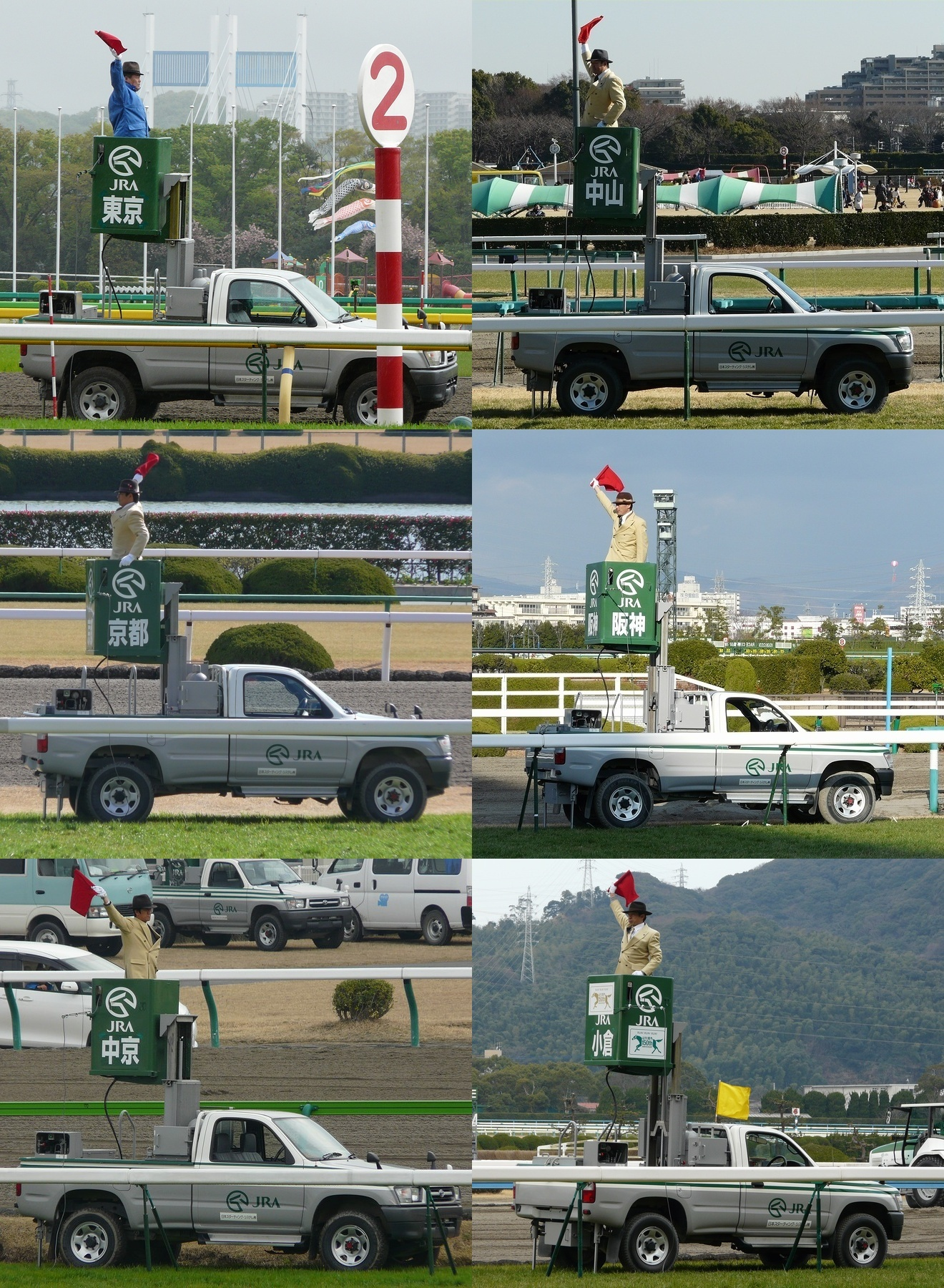 Starter(JRA)